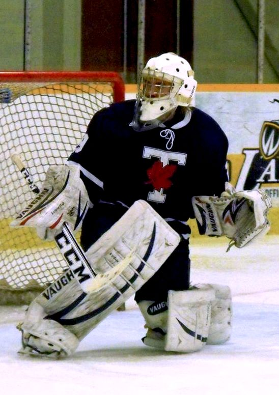 This photo was taken by Devan Mighton during the 2013-14 CIS men's season.